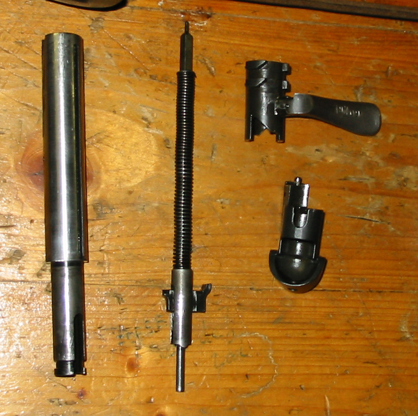 The bolt-action of a Steyr SSG 69 disassembled in its 4 main components. Left the bolt, in the middle the firing pin, to the right at the top the bolt handle with the locking lugs and to the right down the bolt cap.